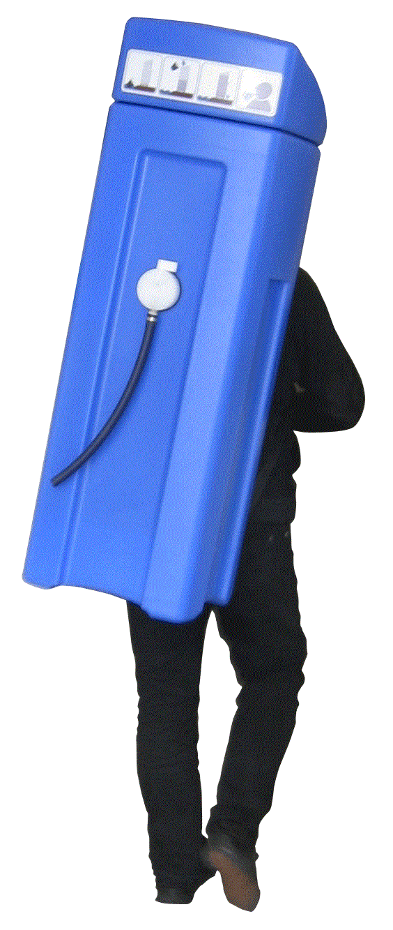 How to carry PAUL, the WaterBackpack. PAUL is a membrane filter unit used for filtering water for humanitarian aid.